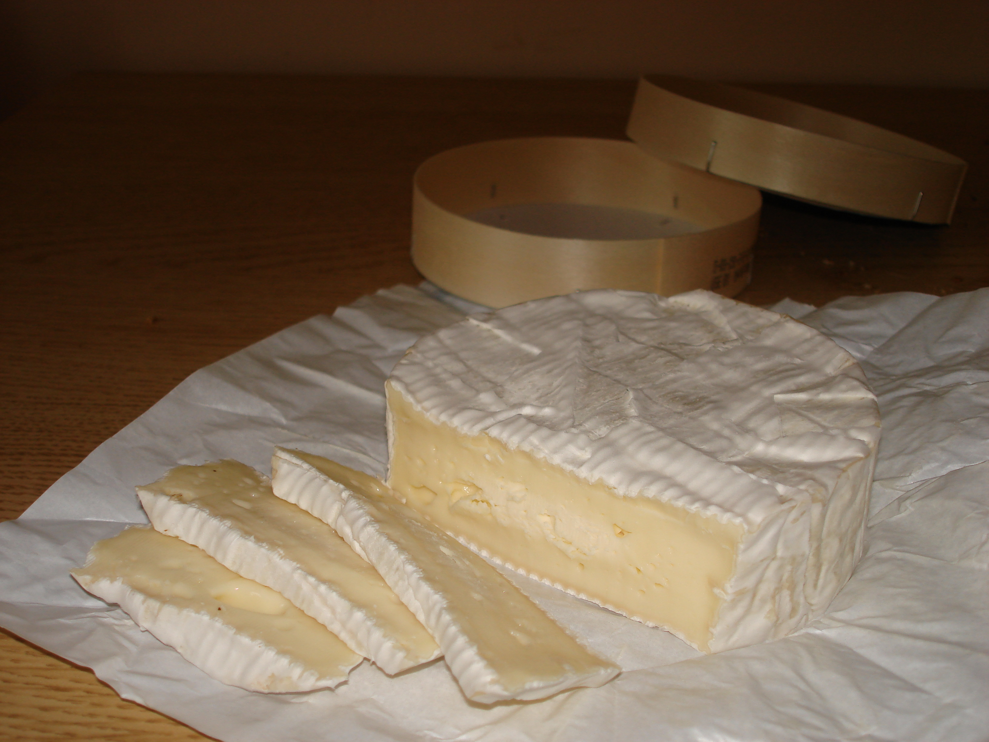 Camembert cheese.